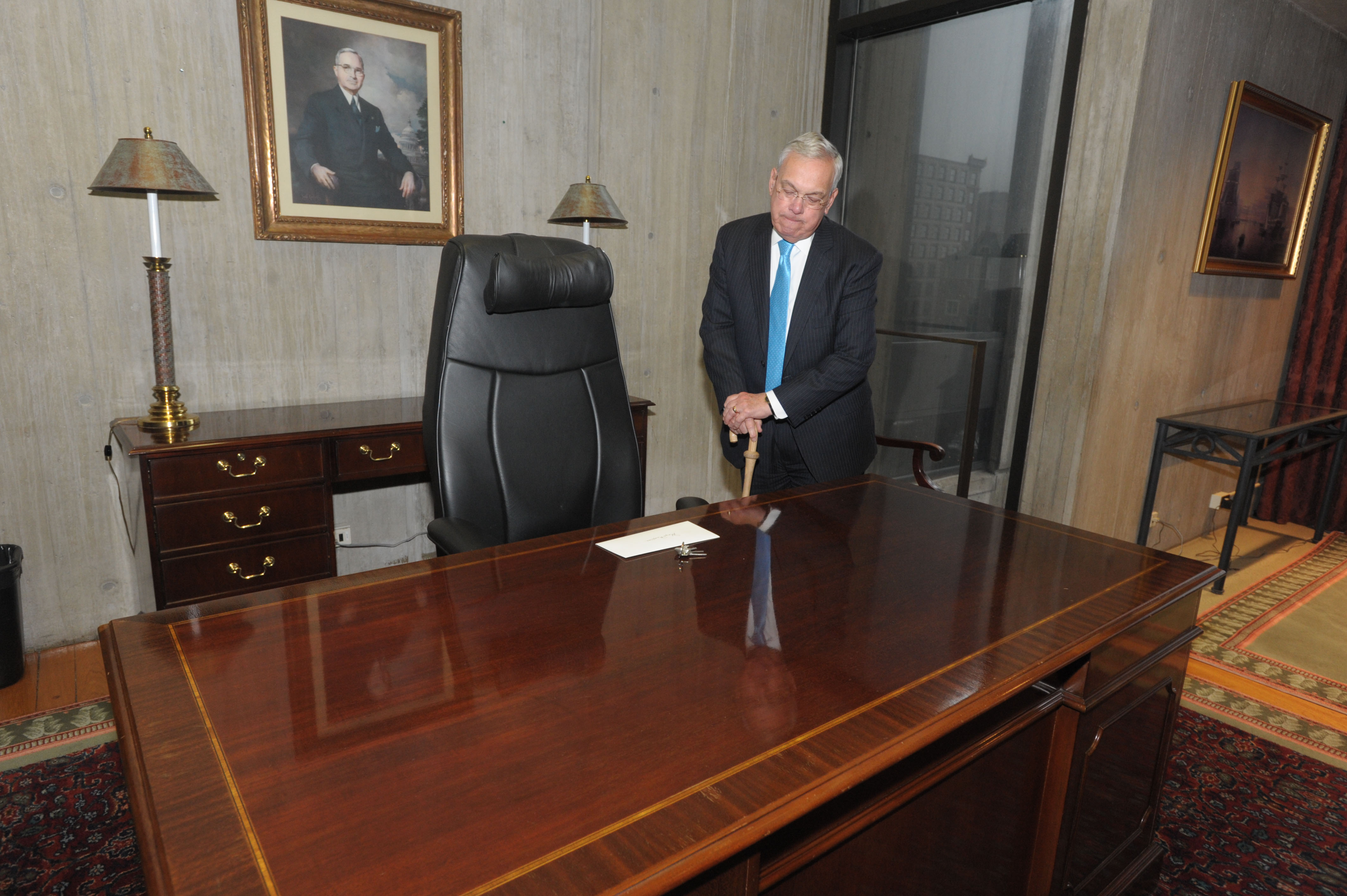 Title: Mayor Thomas M. Menino's last day in office leaving letter and keys for incoming Mayor Walsh Creator: Mayor's Office - City Photographer Date: 2014 January 6 Source: Mayor Thomas M. Menino records, Collection #0247.001 Rights: Copyright City of Boston Citation: Mayor Thomas M. Menino records, Collection #0247.001, City of Boston Archives, Boston